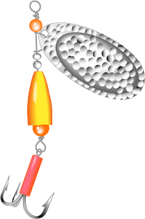 Spinner lure - no feather, orange Created in Adobe Illustrator by Jeremy Kemp, 1/16/05 From a lure by Hookshack